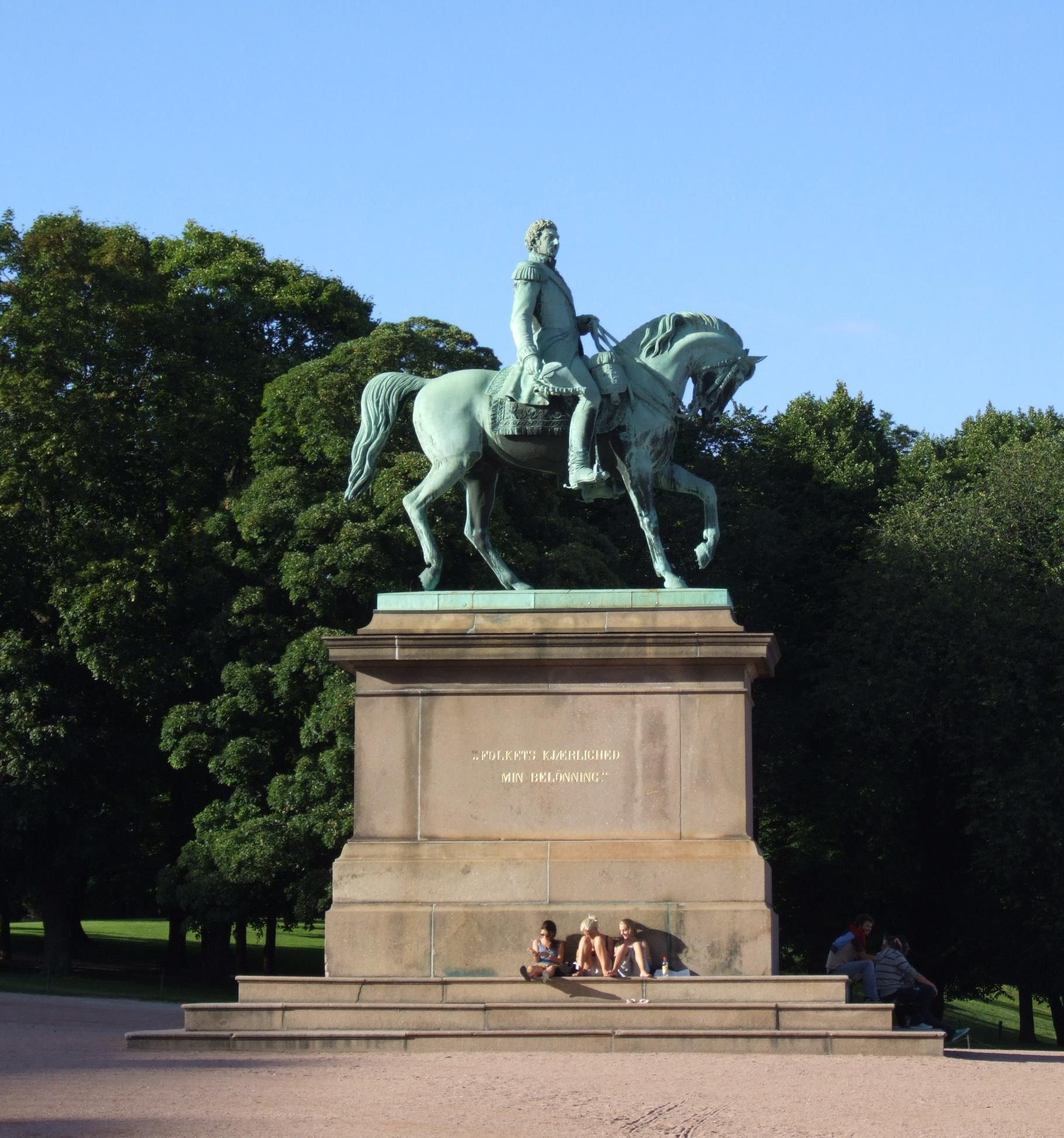 Statue of Charles XIV John of Sweden (Charles III John of Norway) in Oslo